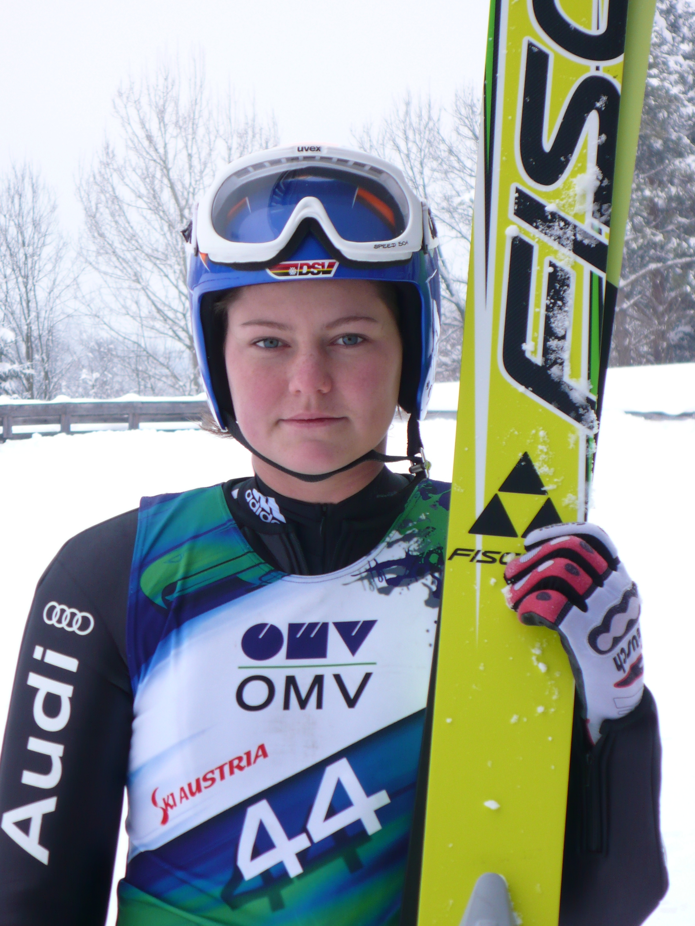 Carina Vogt, at the Ski jumping Continental Cup in Villach on the 2010-02-12.